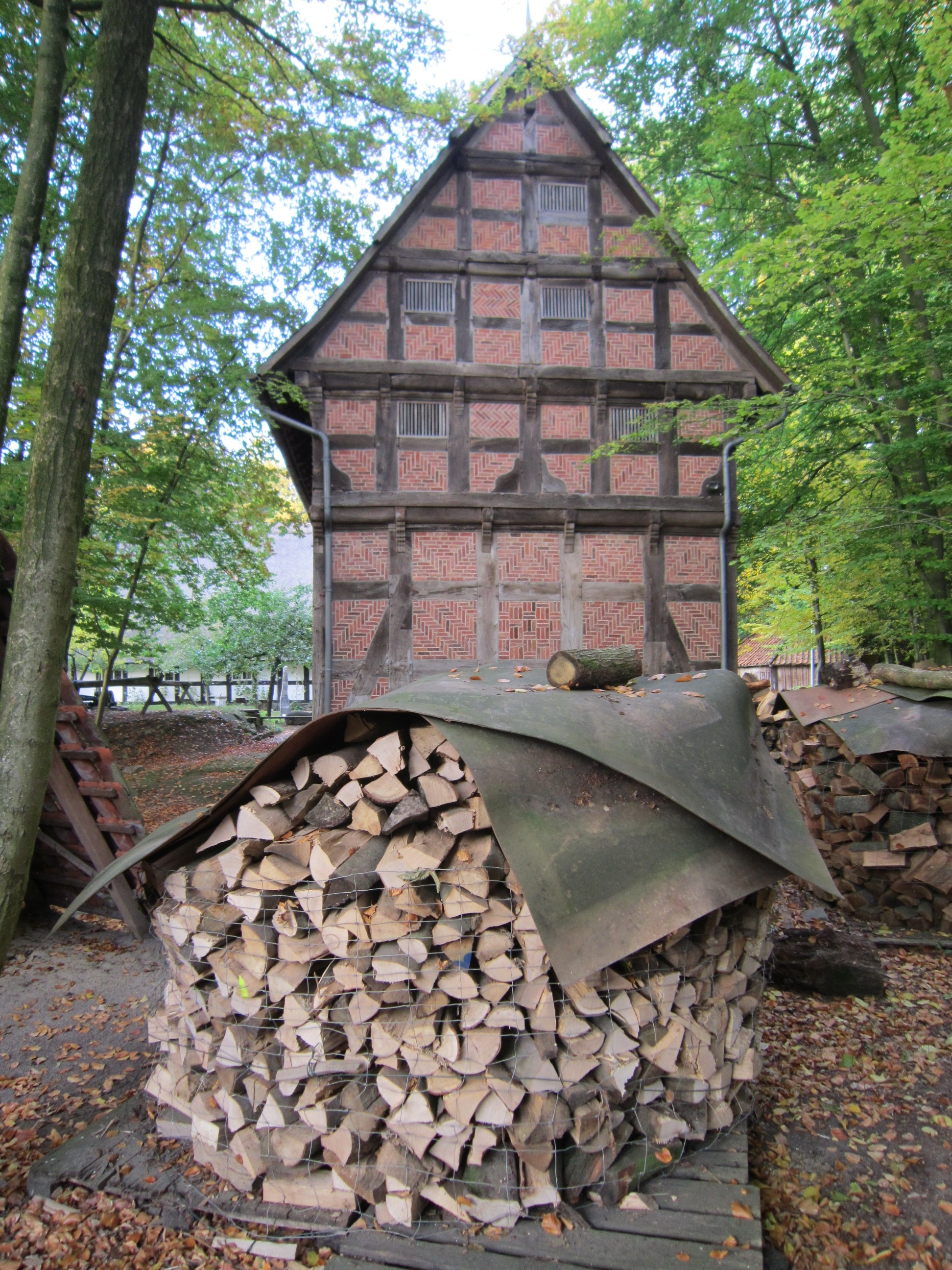 Granary at the entrance of the Syke's "Kreismuseum"